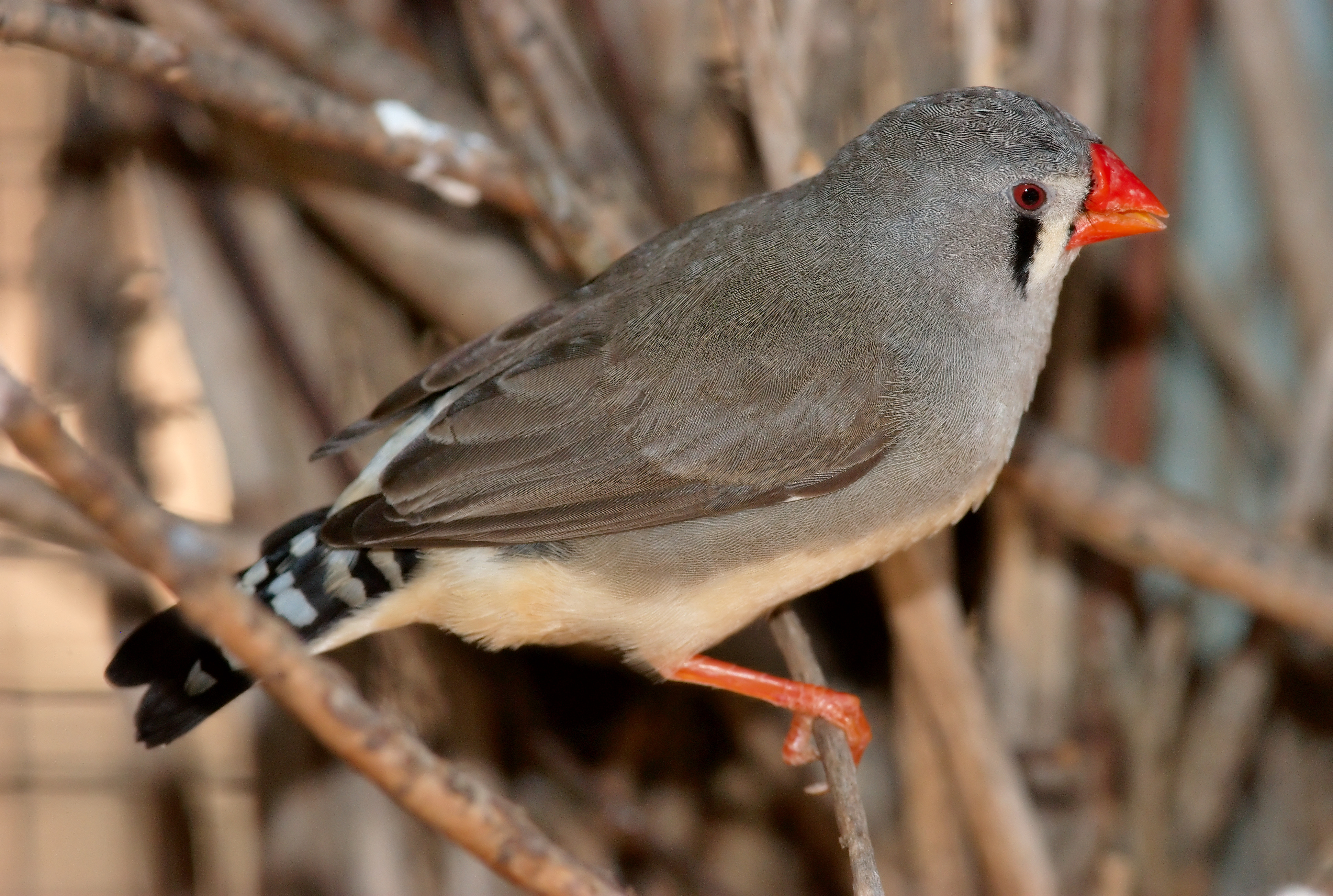 Taeniopygia guttata (Zebra Finch) at Dundee Wildlife Park, Murray Bridge, South Australia